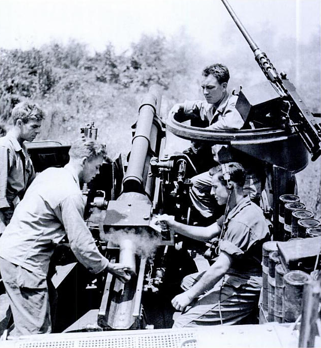 M7 self-propelled gun firing during training south of Arno river in Italy